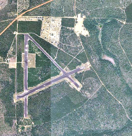 USGS digital orthophoto of Piccolo Field, an airfield in Florida